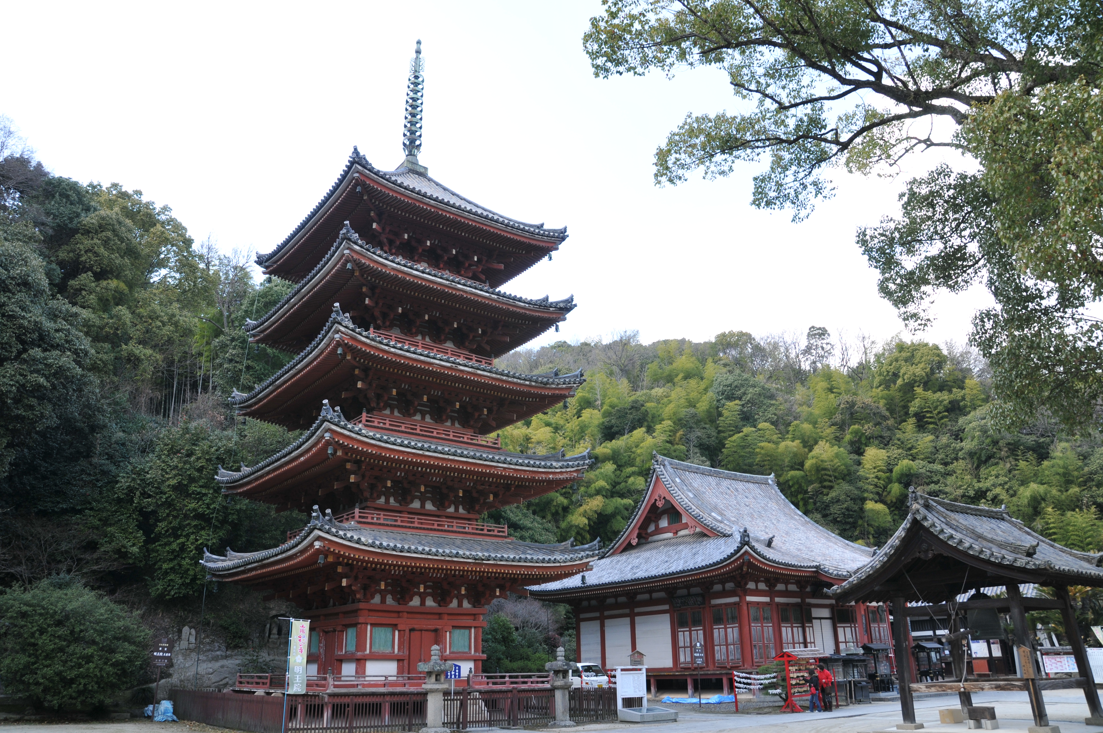 Five-storied Pagoda and Main hall (Japan's National Treasures them both), Myōō-in